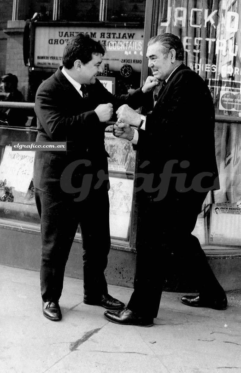 Jack Dempsey (right) playing to box with the Argentine journalist who enterviewed him in Broadway.